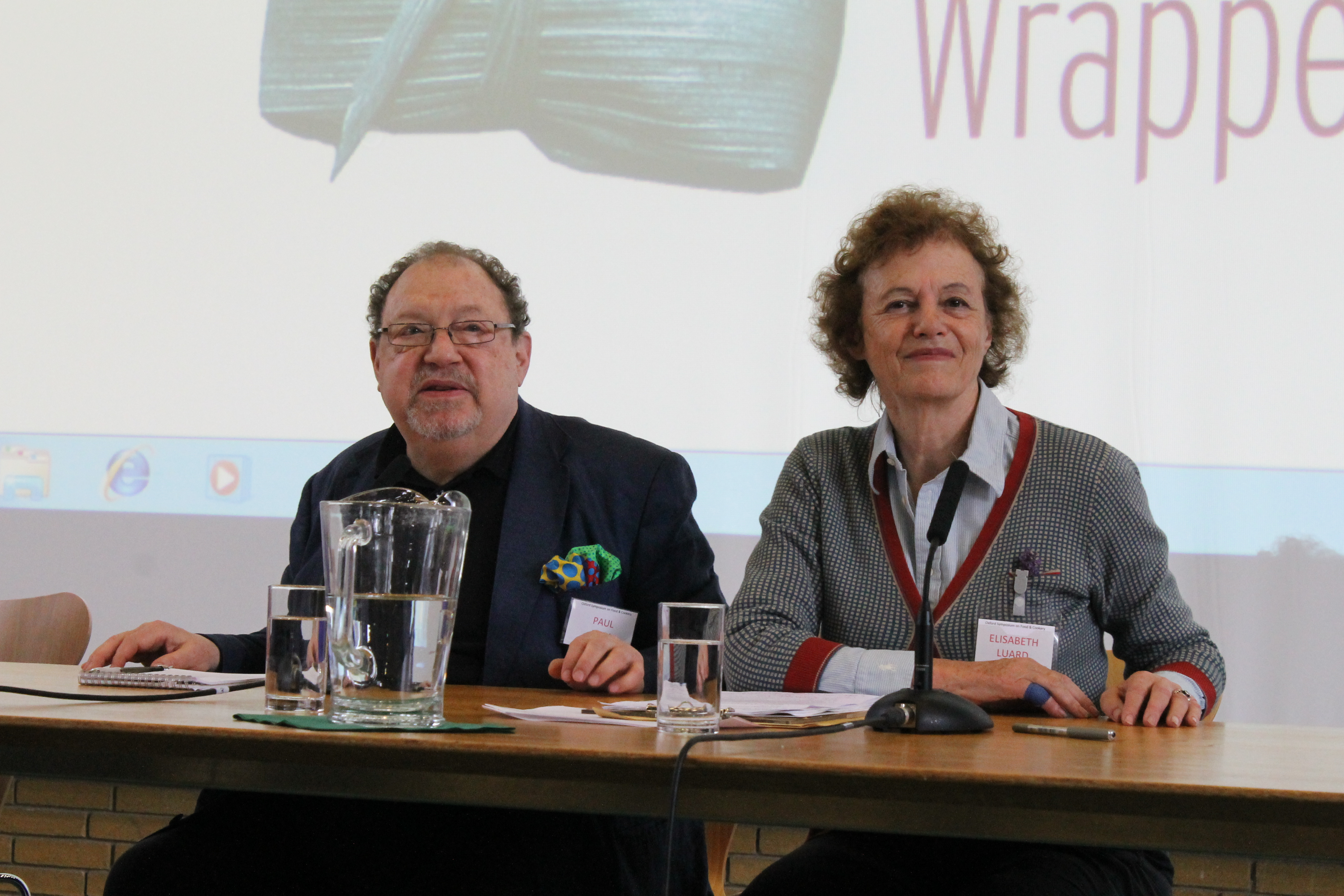 Food writer Paul Levy and cookbook author Elizabeth Luard at the Oxford Symposium on Food and Cookery, 2012.